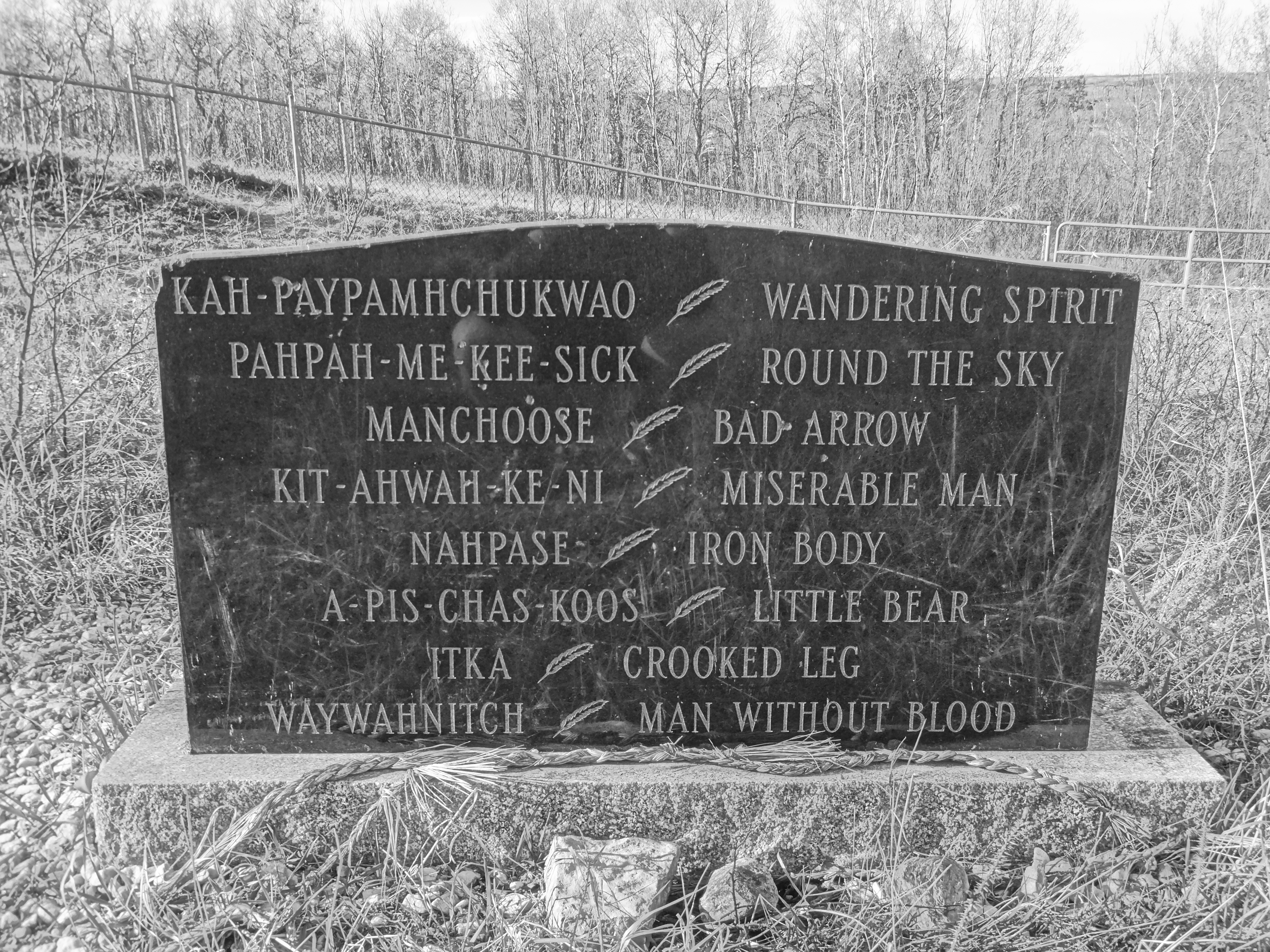 The gravesite of the Battleford Eight in Battleford, Saskatchewan, Canada. This is the gravesite of the largest mass hanging in the history of Canada which occurred on November 27th, 1885 in the wake of the Riel Resistance. Documents at the time show that the Judge who condemned the Battleford eight to hang at Fort Battleford was accused of severe bias, the Saskatchewan Herald reported on December 14th, 1885 that a telegram was making the rounds of the press stating that Judge Charles Rouleau "is reported to have threatened that every Indian and Half-breed and rebel brought before him after the insurrection was suppressed, would be sent to the gallows if possible. In view of all the circumstances, and particularly as Judge Rouleau was a heavy loser pecuniarily by the Indian outbreak at Battleford, it is contended that he should not have been allowed to preside at the trial of the prisoners. A memorial has been received by the Department of Justice asking that the matter be investigated."